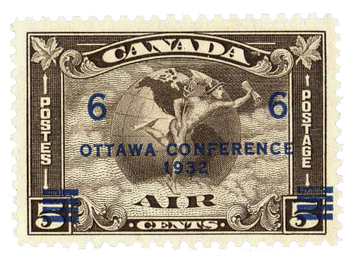 Postage stamp, Canada, 1932: Airmail with overprint, "Ottawa Conference 1932".